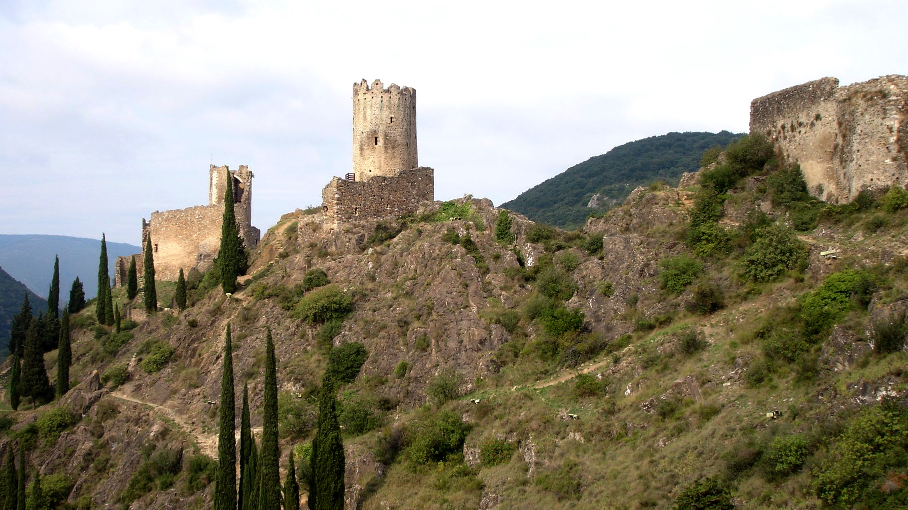 France, Aude (11), Lastours Castles